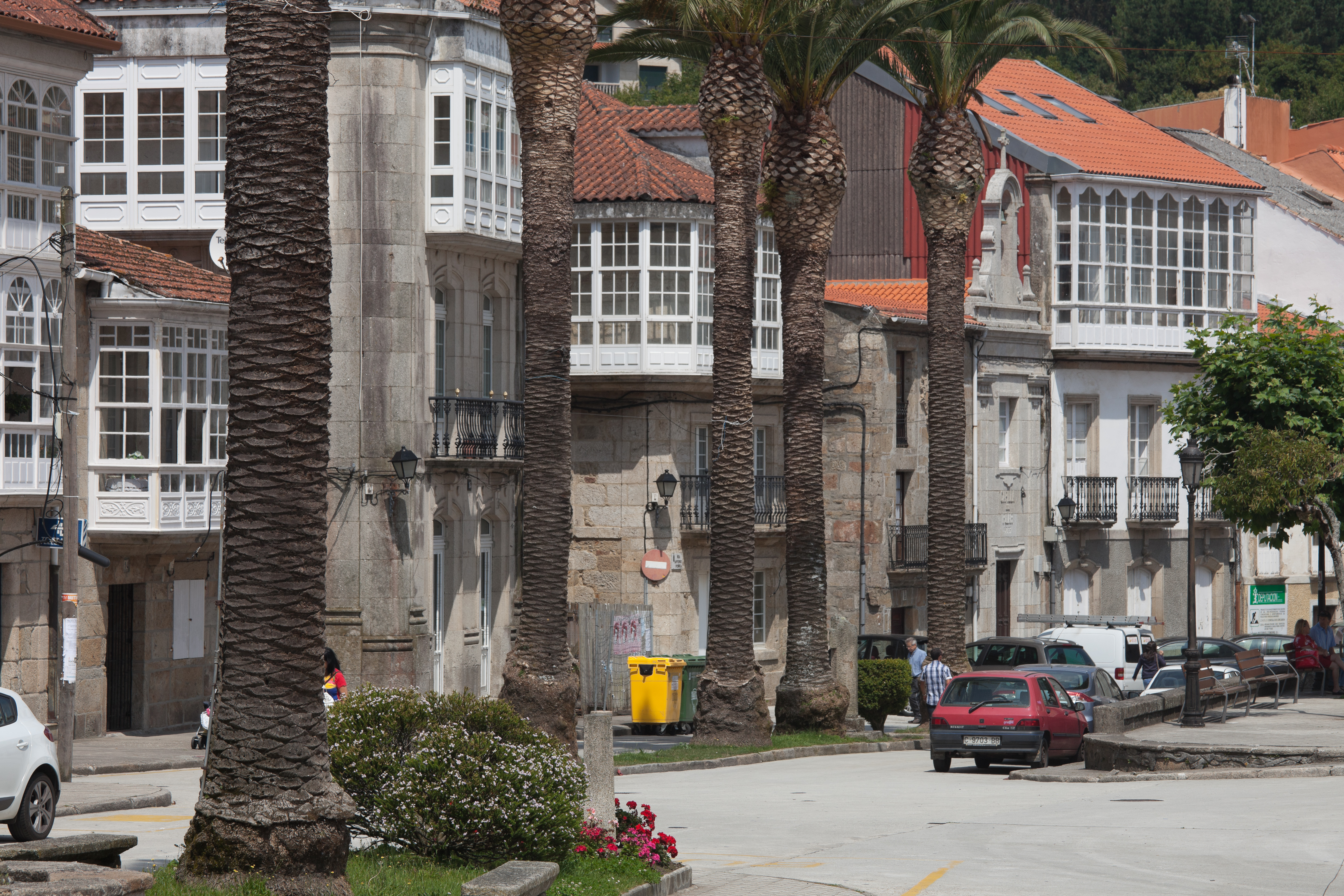 Buildings in Corcubion, Galicia (Spain)